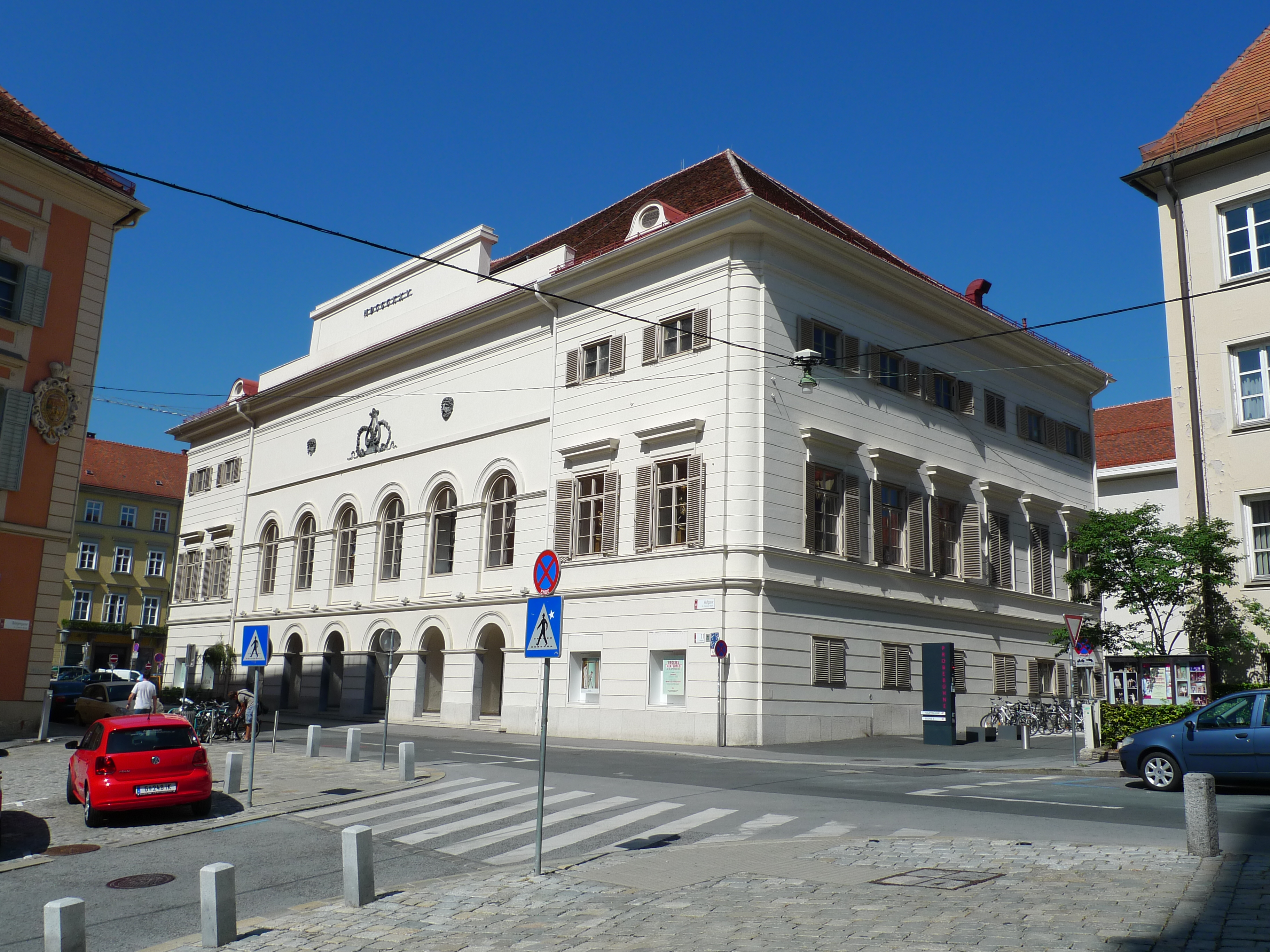 Schauspielhaus Graz